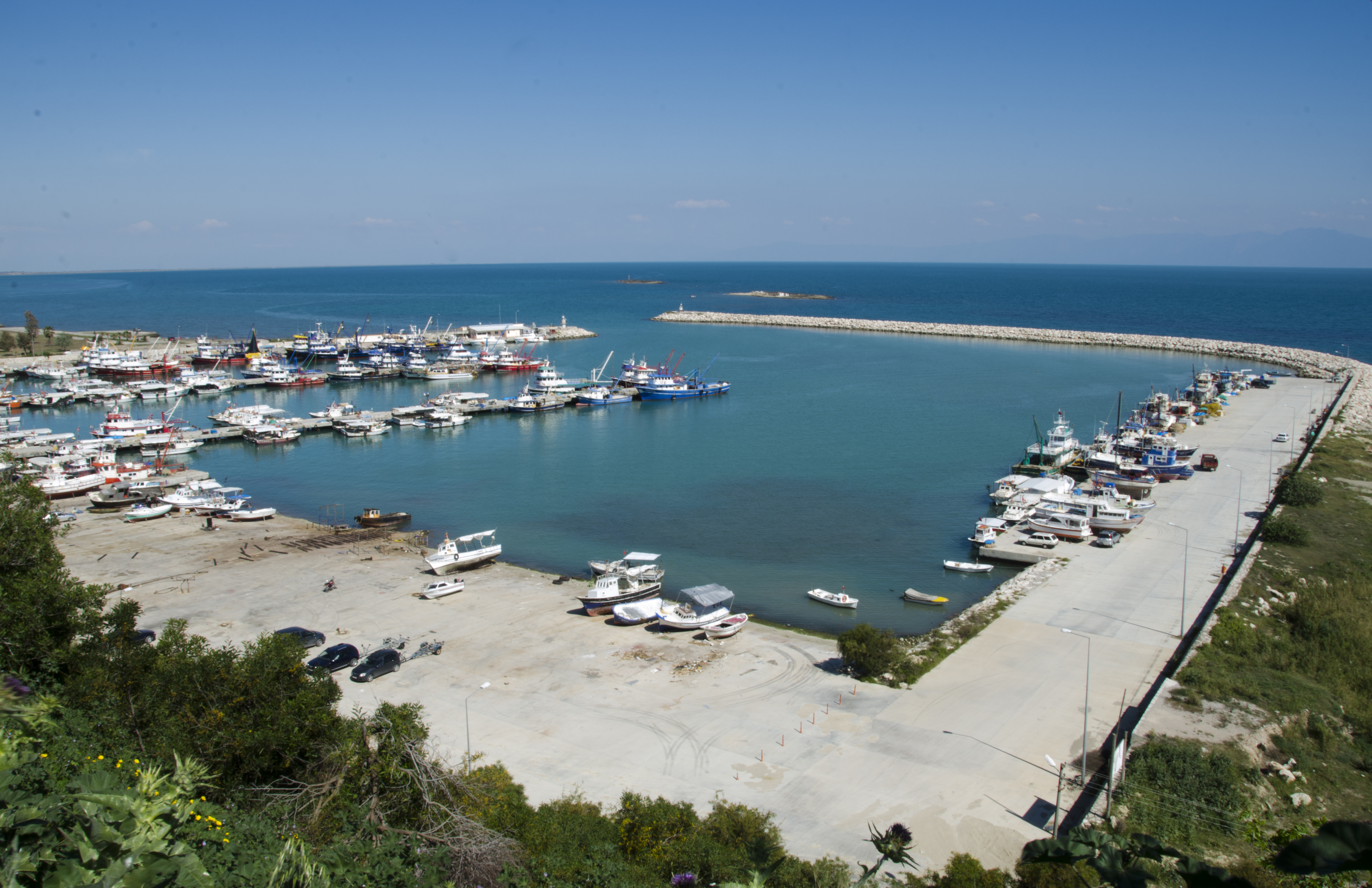 A view of Port of Karataş. Karataş, Adana - Turkey.